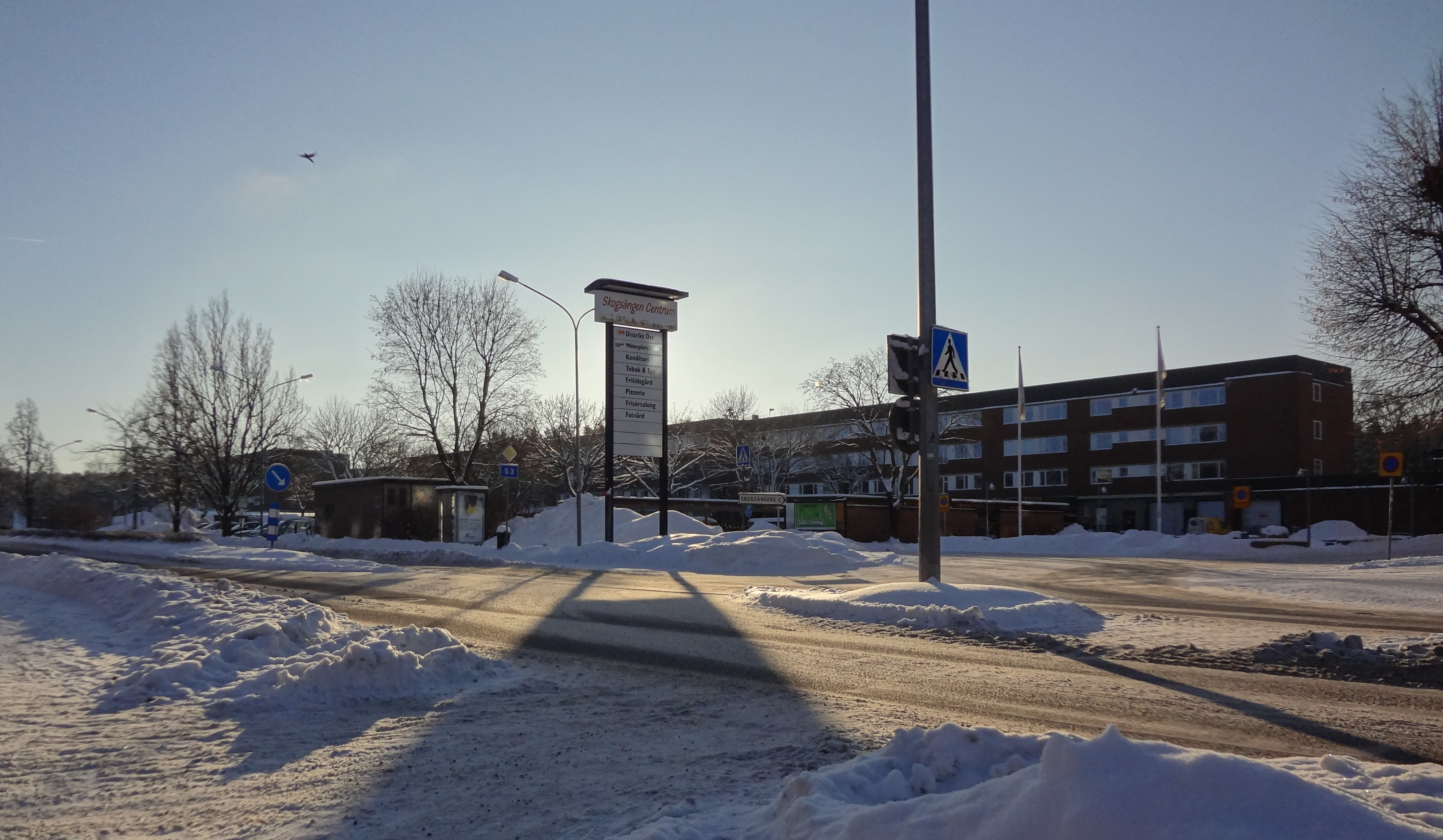 Center of "Skogsängen" in Eskilstuna.